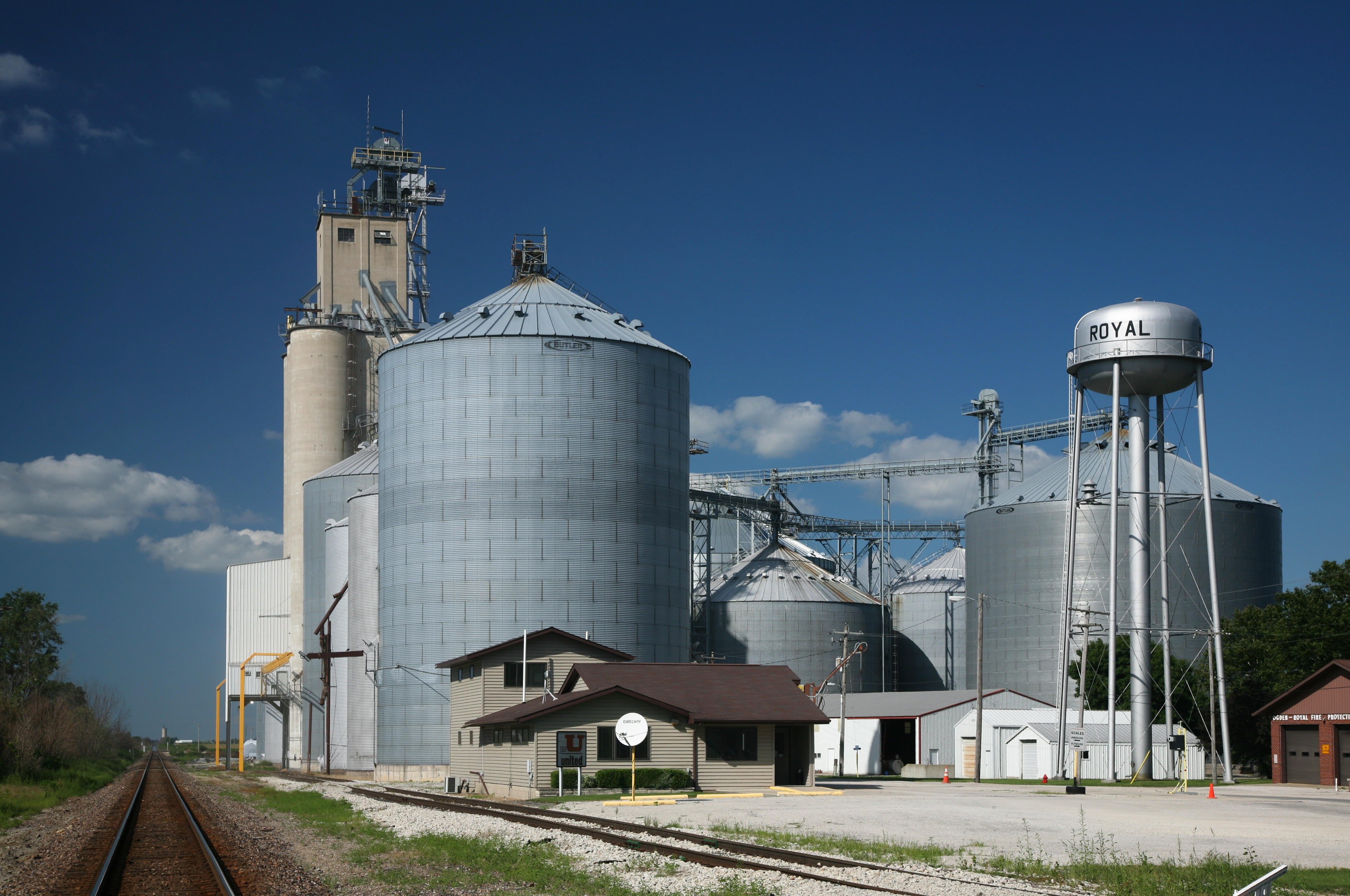 Grain elevators and watertower in Royal, Illinois